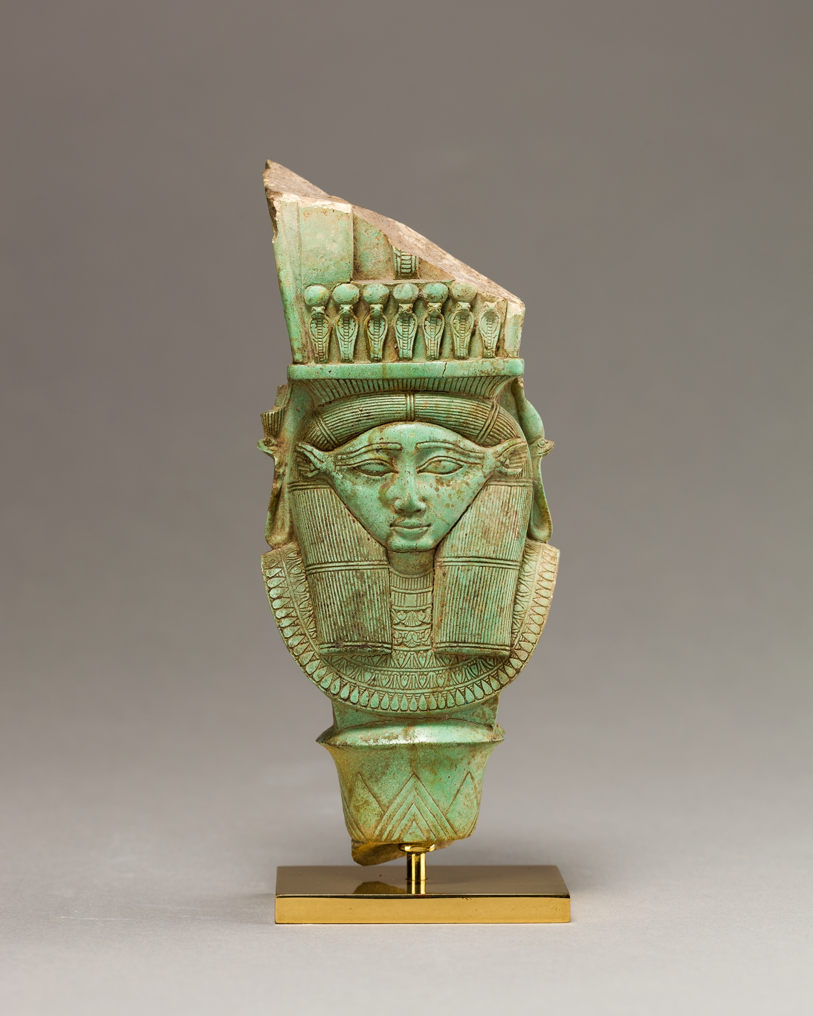 Sistrum fragment, Hathor